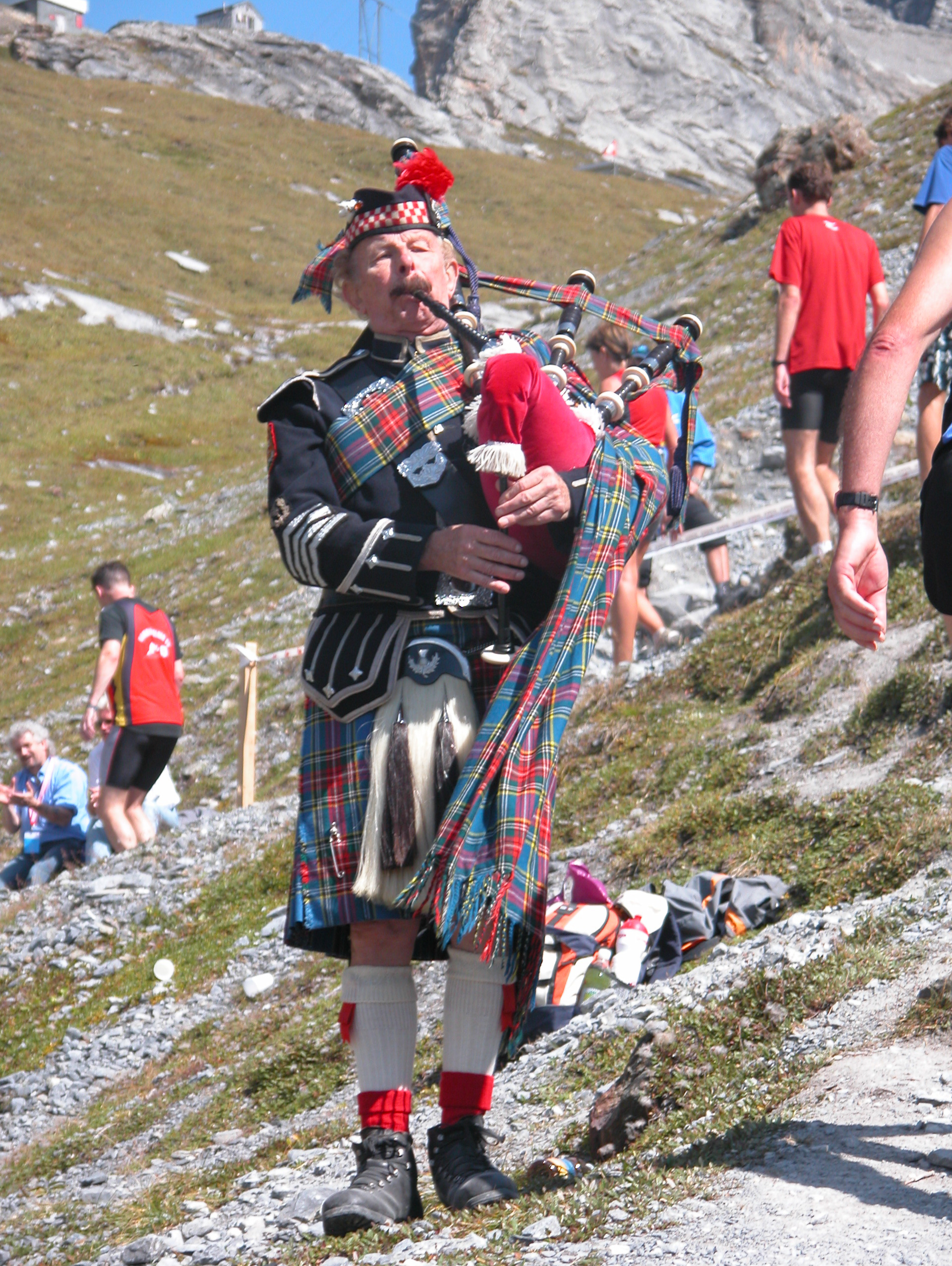 14th Jungfrau Marathon on 09.09.2006. At the end of the moraine Roman Käslin played his bagpipe every year. Roman Käslin died on 27 April 2010 at the age of 78.